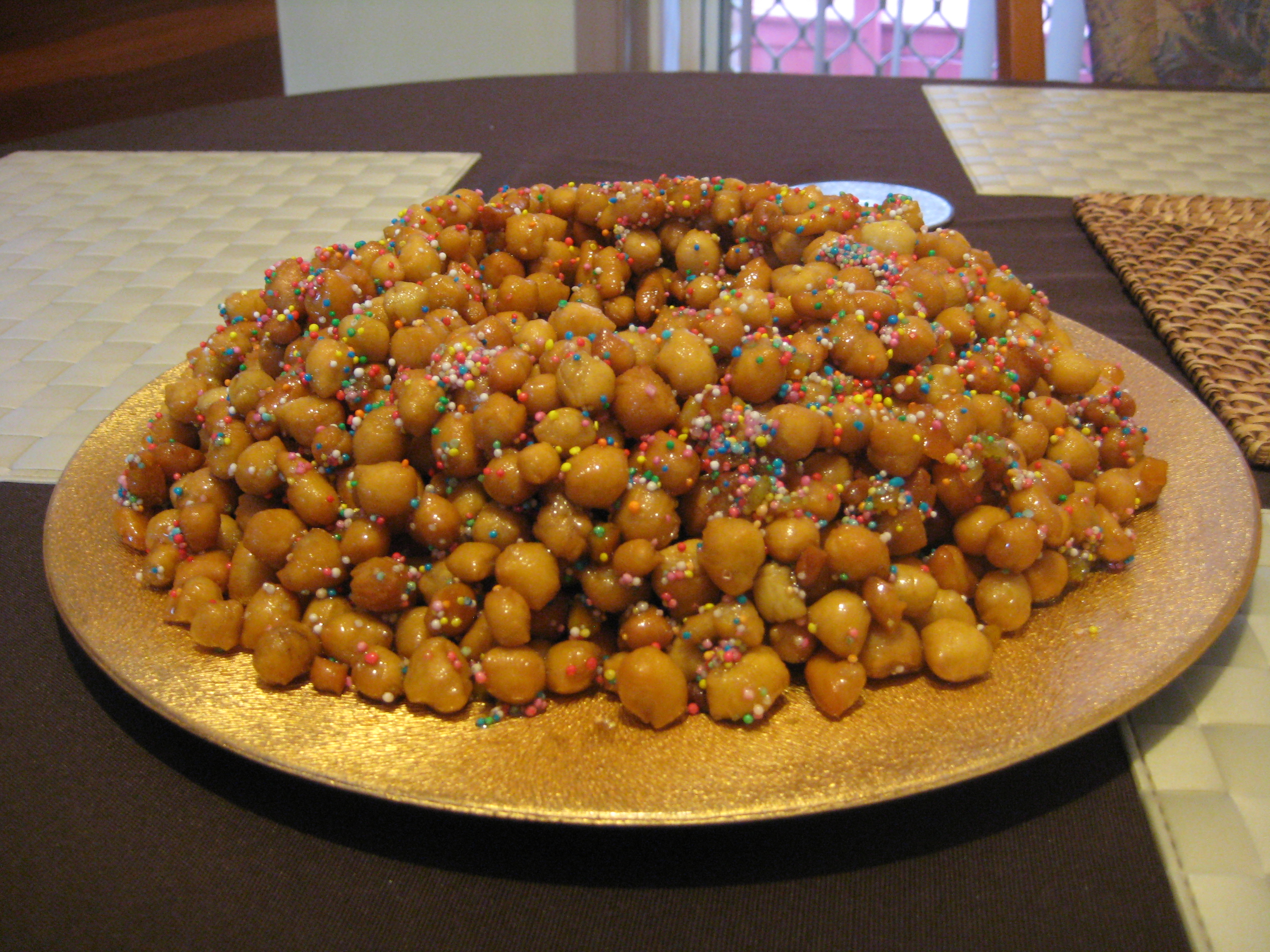 Struffoli made in the traditional way from Sorrento. Marble sized dough balls covered in honey, citrus peel and hundreds and thousands.